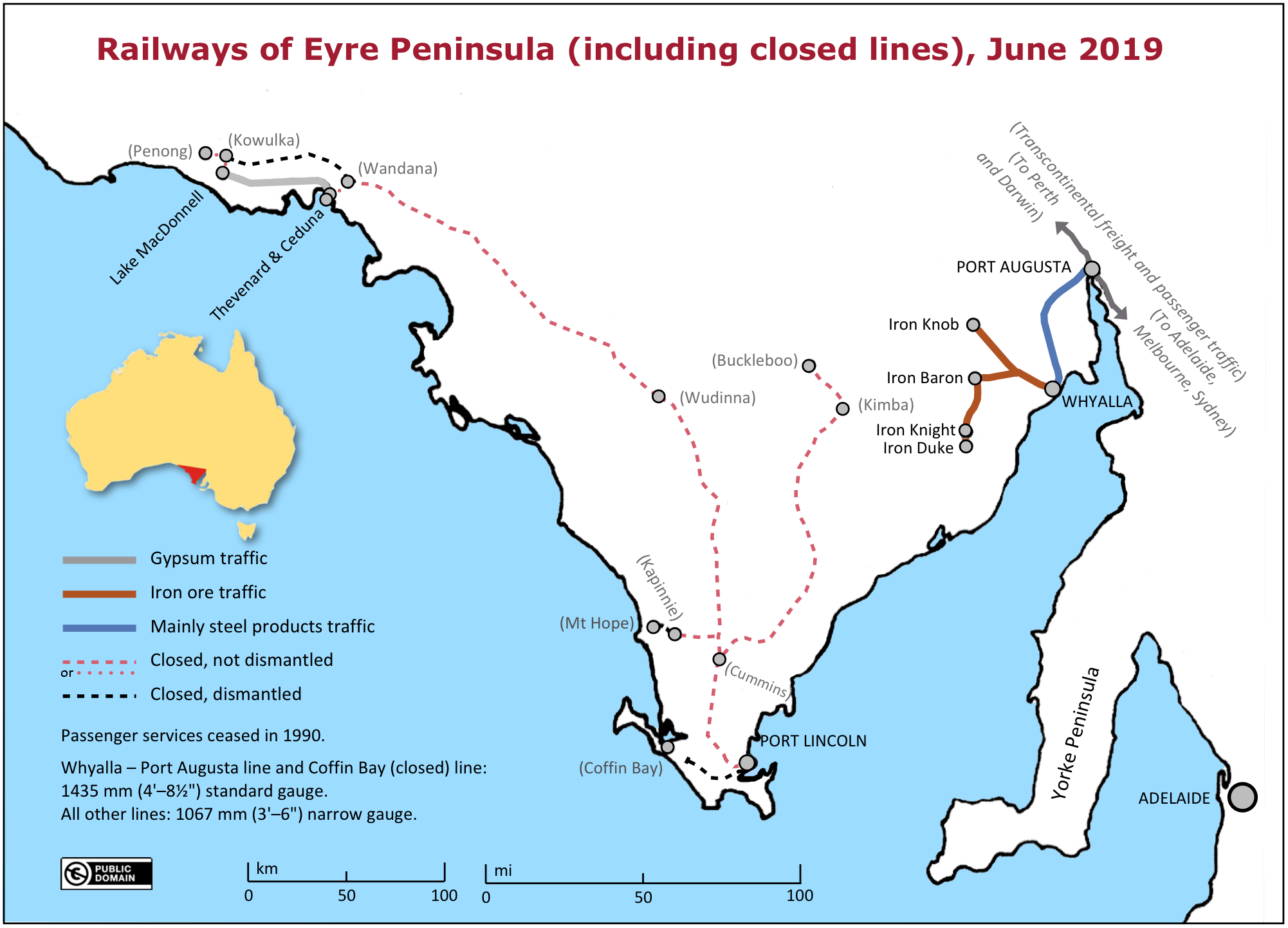 Map of the railways of Eyre Peninsula, South Australia, in 2019 (including closed lines). This is an update of Map of Eyre Peninsula railway lines in 2017.png following the permanent cessation of wheat haulage from 1 June 2019.